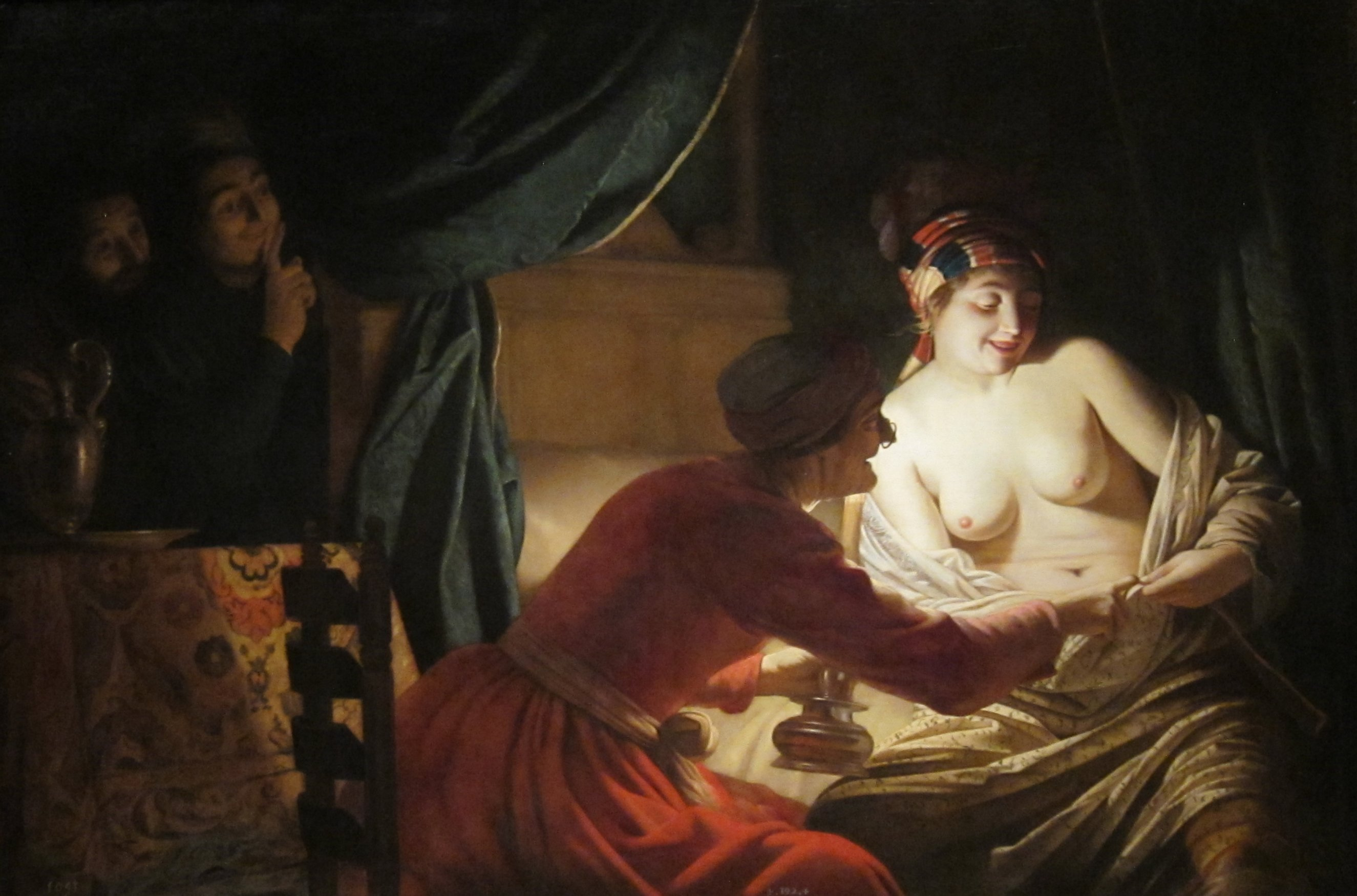 The Flea Hunt